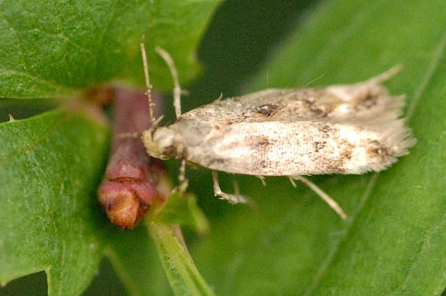 Picture taken in Commanster, Belgian High Ardennes . Species: Caryocolum blandella